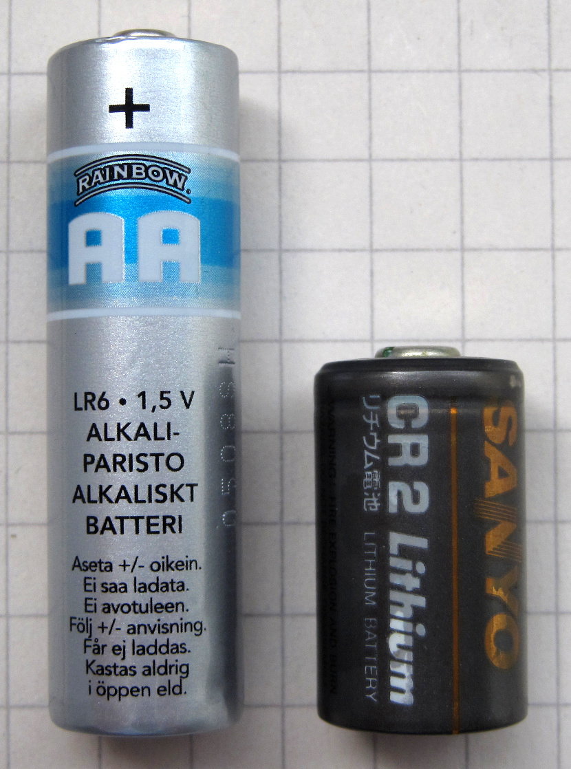 A 3 Volt CR2 (CR17355, 5046LC) lithium camera battery. Alongside an AA battery for comparison and atop a 7mm grid.